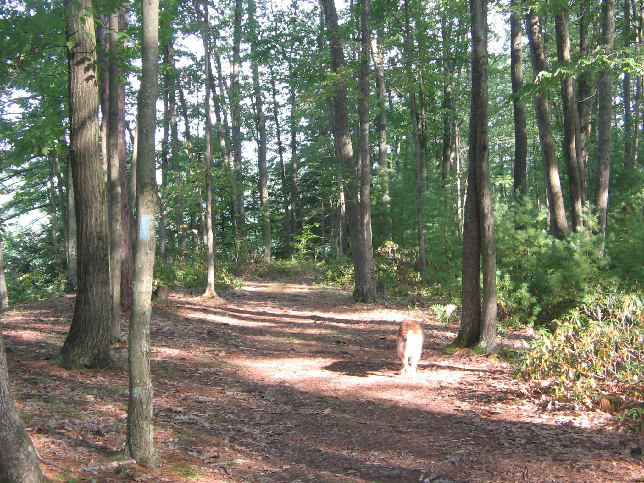 Rim Trail along the Pine Creek Gorge in Colton Point State Park in Shippen Township, Tioga County, Pennsylvania, United States. Looking south, canyon is at left, note blue blaze.